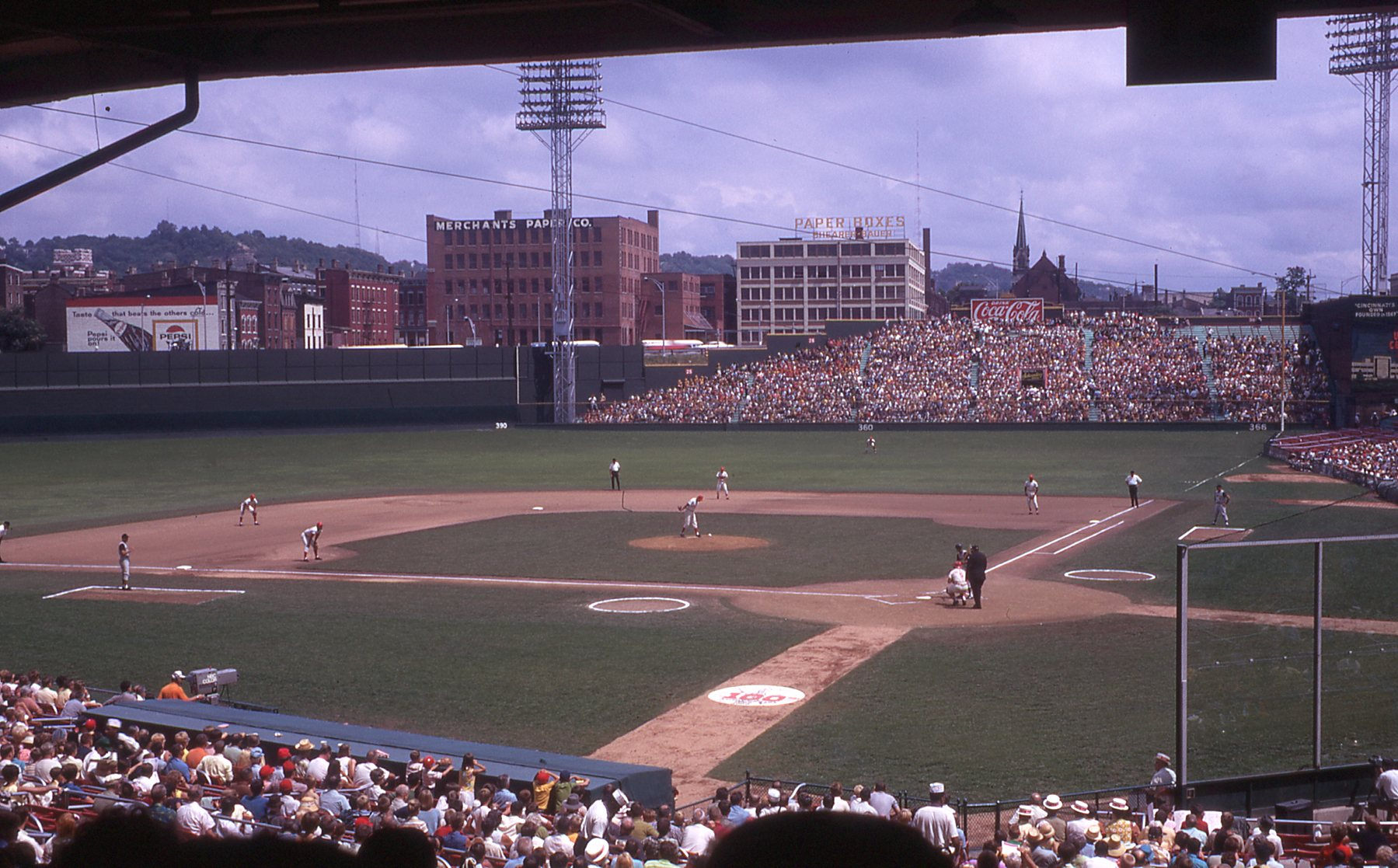 Crosley Field Cincinnati 8/69 img076